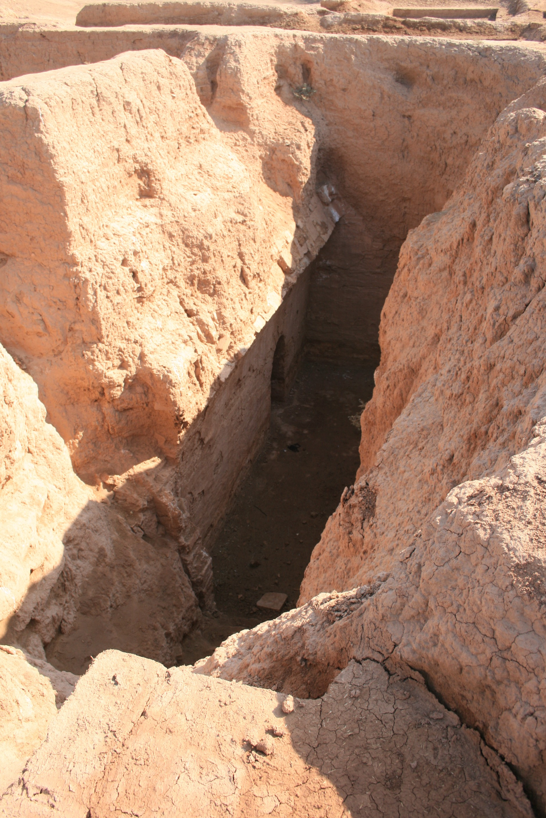 Choga Zanbil; palace with tombs